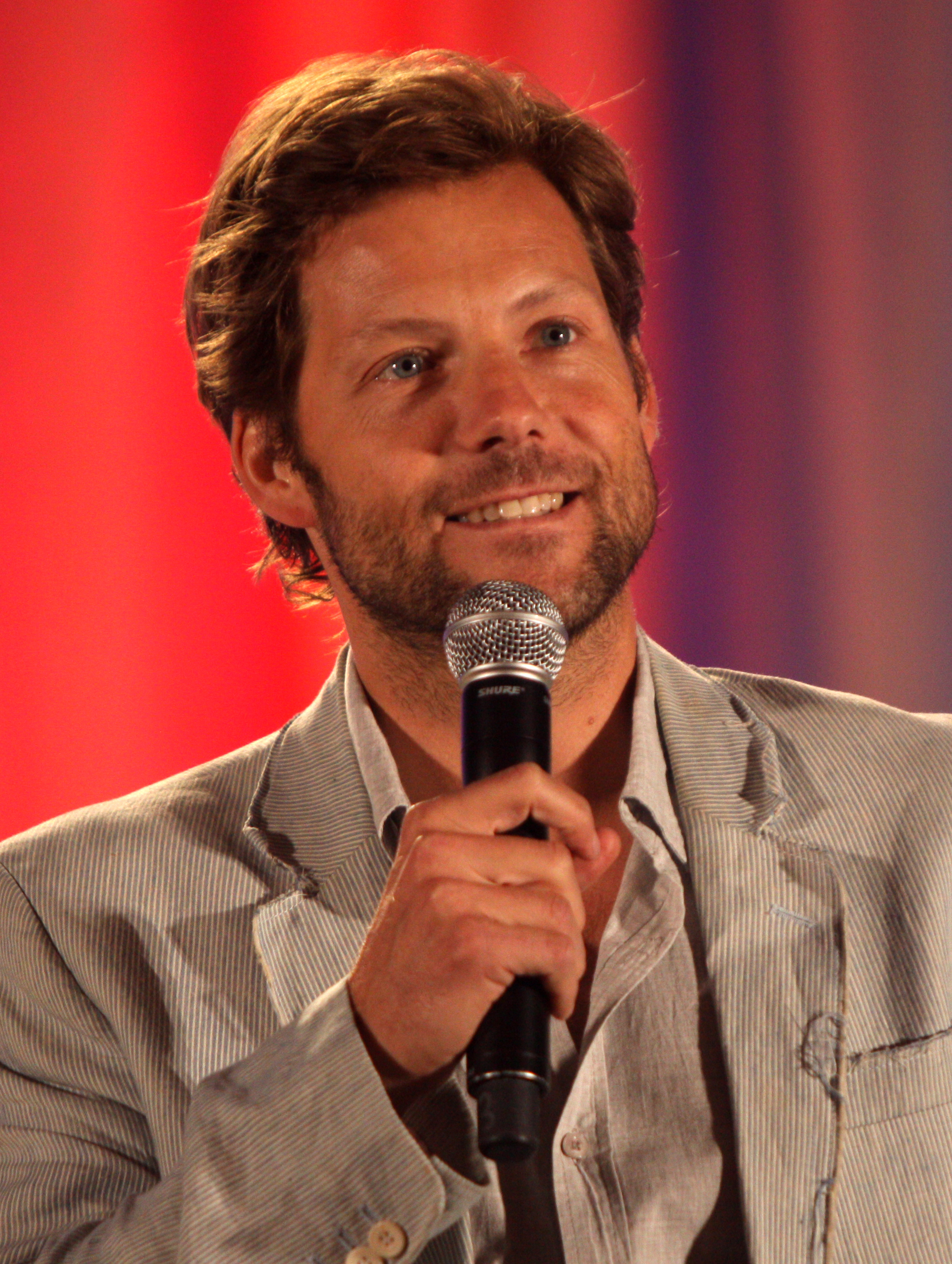 Jamie Bamber at the 2012 Phoenix Comicon in Phoenix, Arizona.